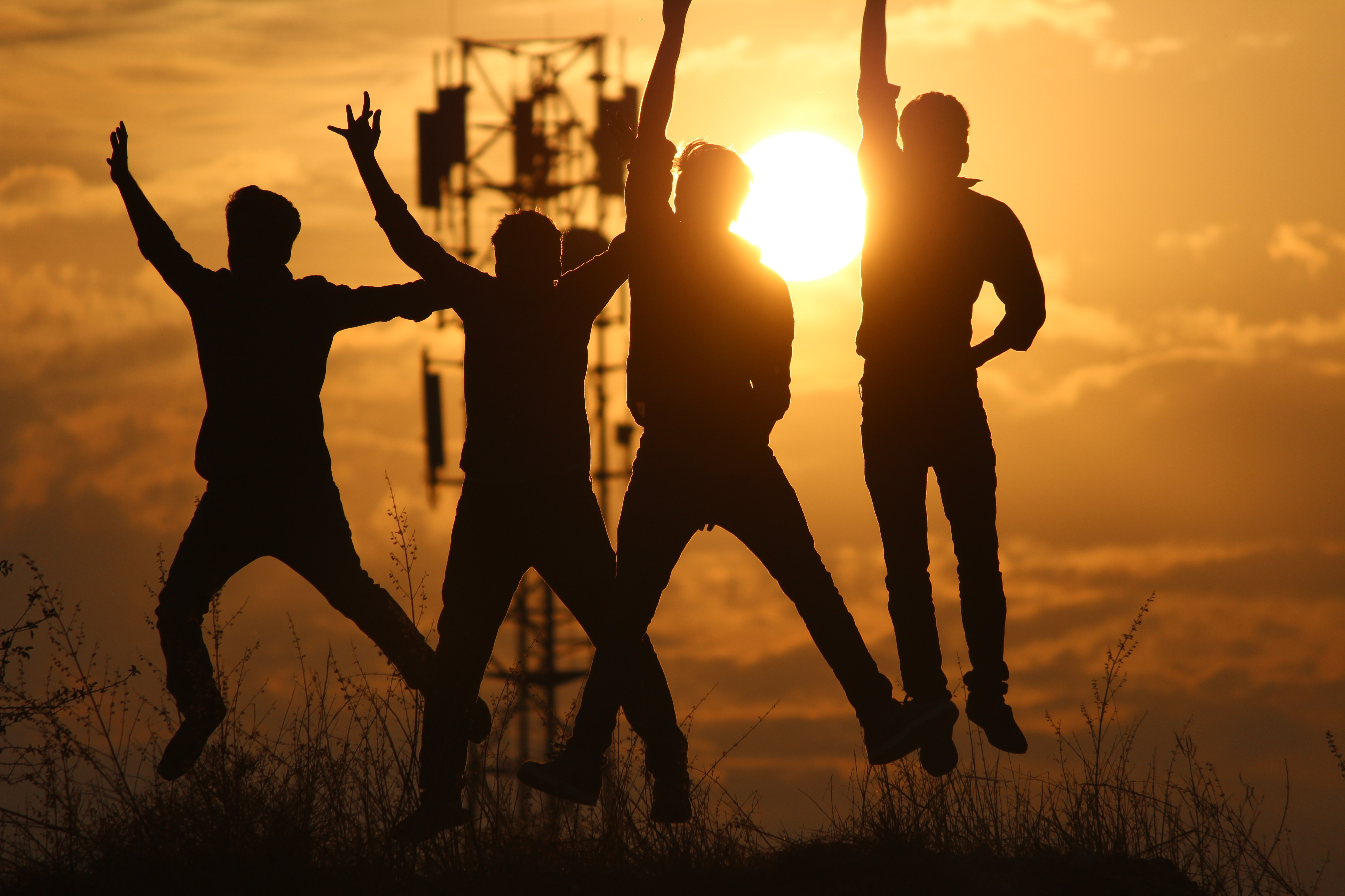 shot on outer ring road,Hyderabad